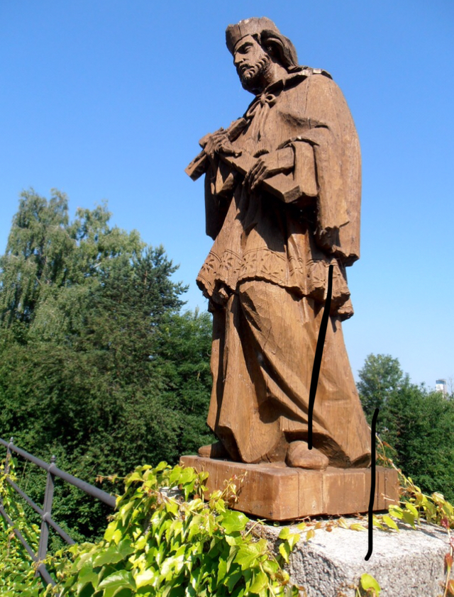 Römerbrücke Nepomuk